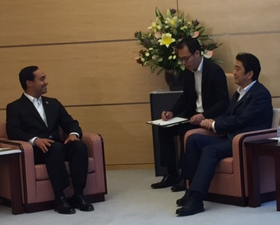 This is an image depicting United States Representative Joaquin Castro meeting with Japanese Prime Minister Shinzo Abe.